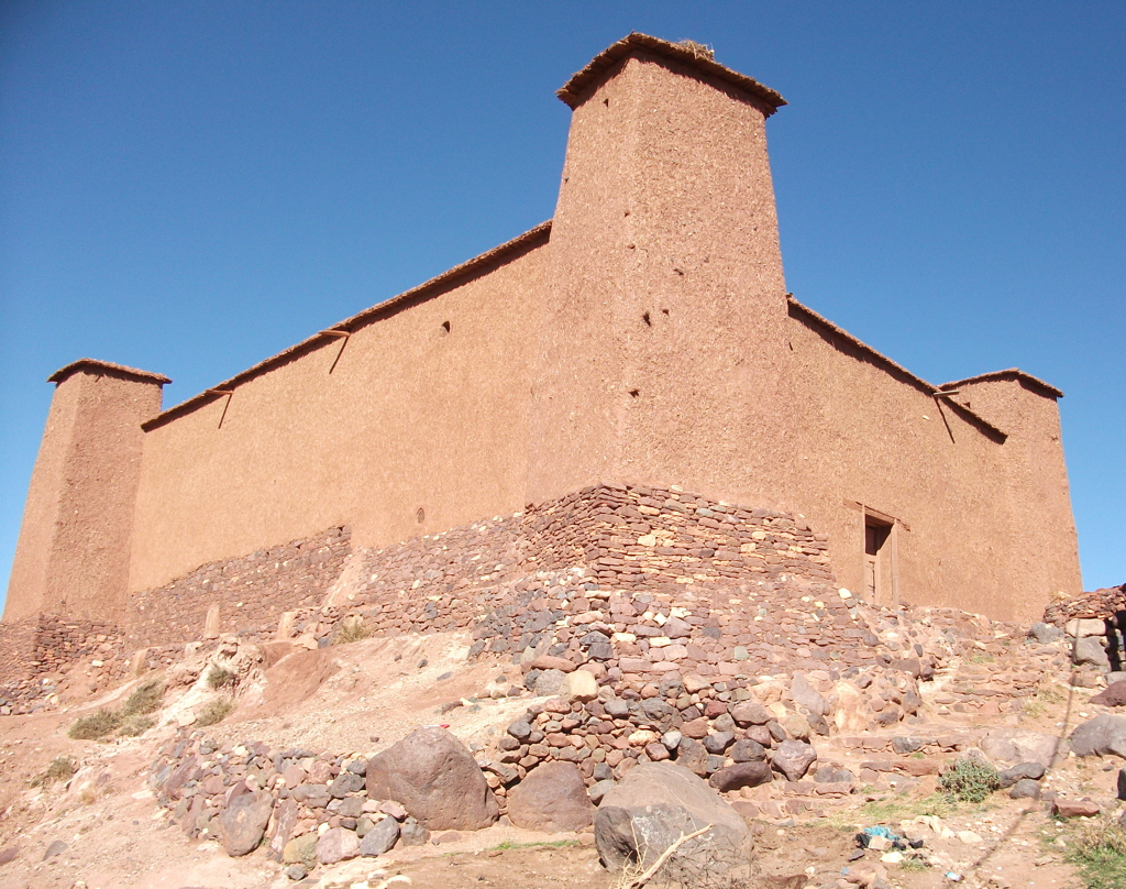 Ighrem n’Ougdal, fortified granary, Morocco